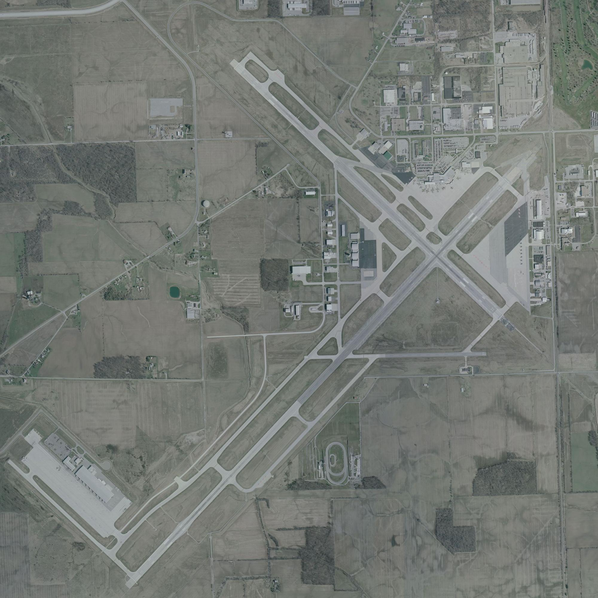 USGS digital orthophoto of Fort Wayne International Airport in Fort Wayne, Indiana, United States